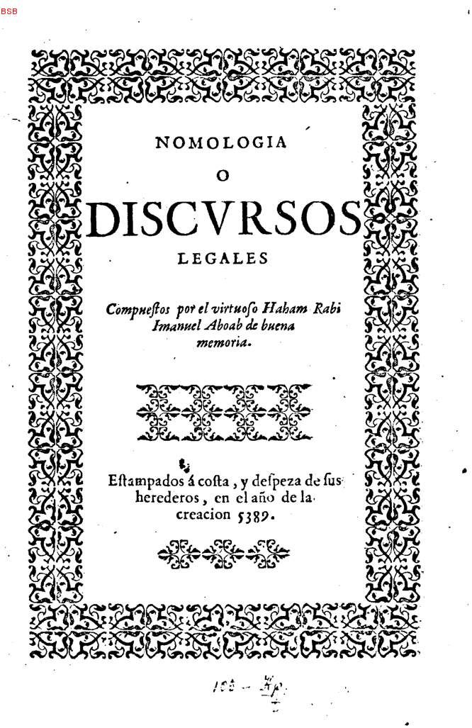 Title page of Nomologia, ó Discursos legales compuestos por el virtuoso Haham Rabbi Imanuel Aboab de buena memoria. Printed in the year 5389 after the creation (1629 CE). Published in Amsterdam.